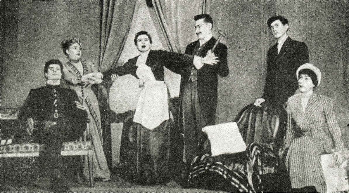 The scene from play: La cantatrice chauve